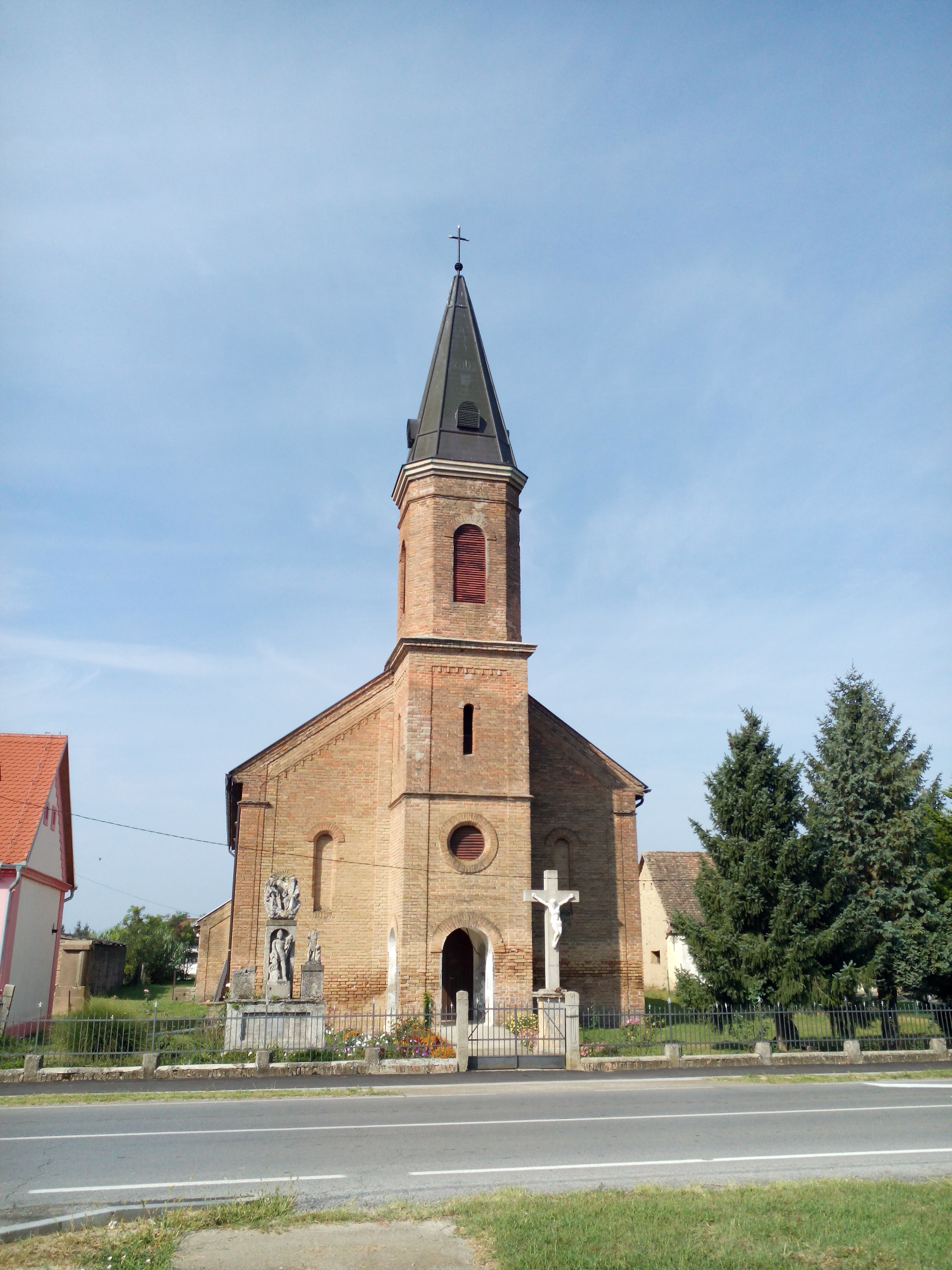 St. Martin's Church, Grabovac.